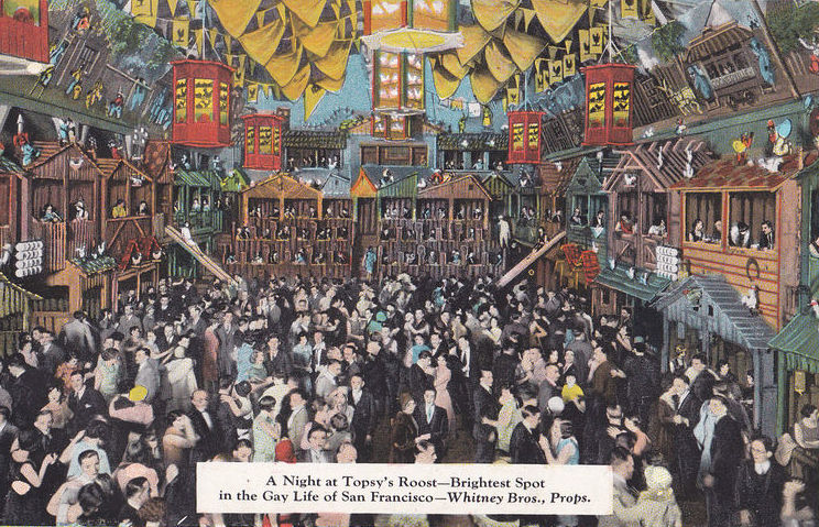 Topsy's Roost in San Francisco, CA